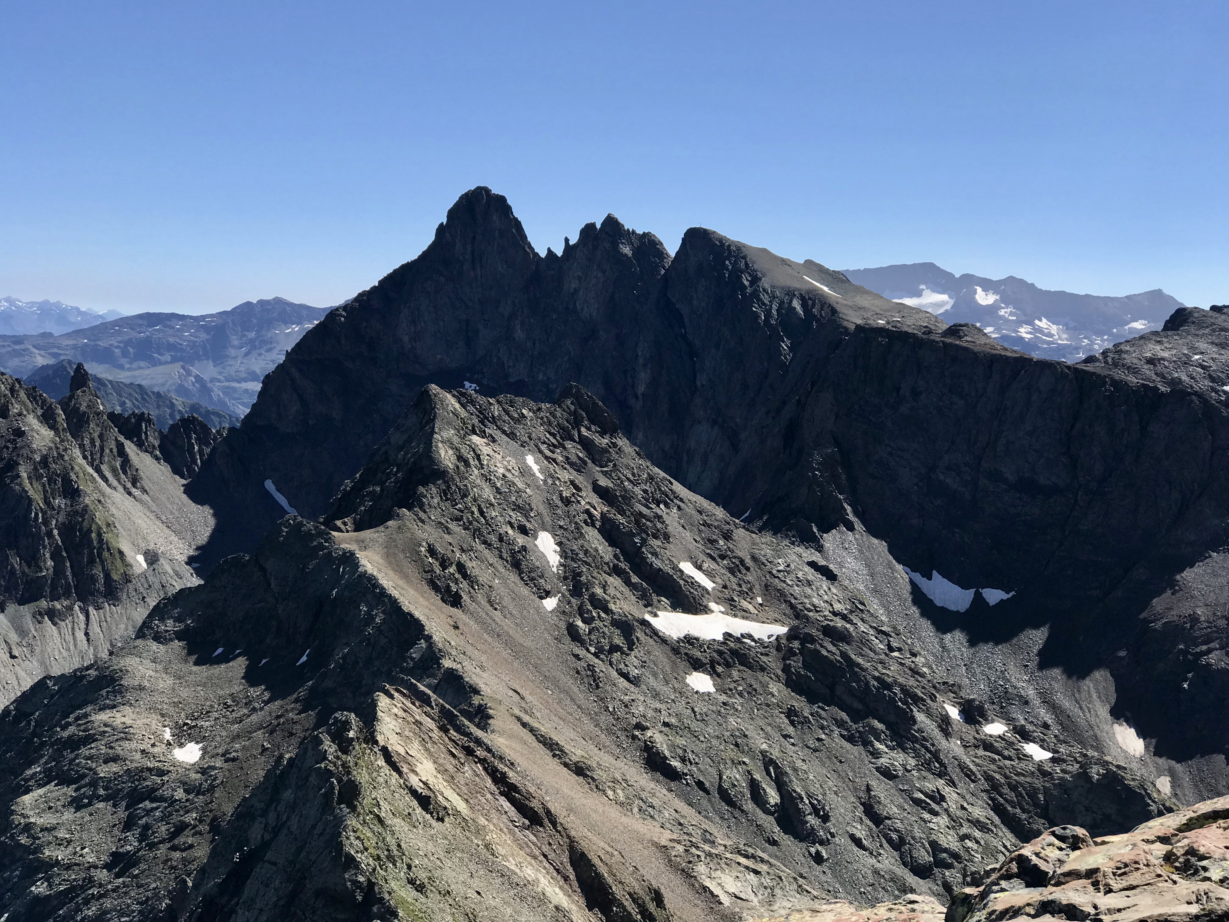 The 3 peaks of Belledonne seen from Grande Lance de Domène. The Top peak is the Grand Pic de Belledonne and the highest point in the Belledonne range (2977m). The middle peak is Pic Central and the lowest one is Croix de Belledonne (2926m), a popular hiking destination. The cross is visible on the picture.